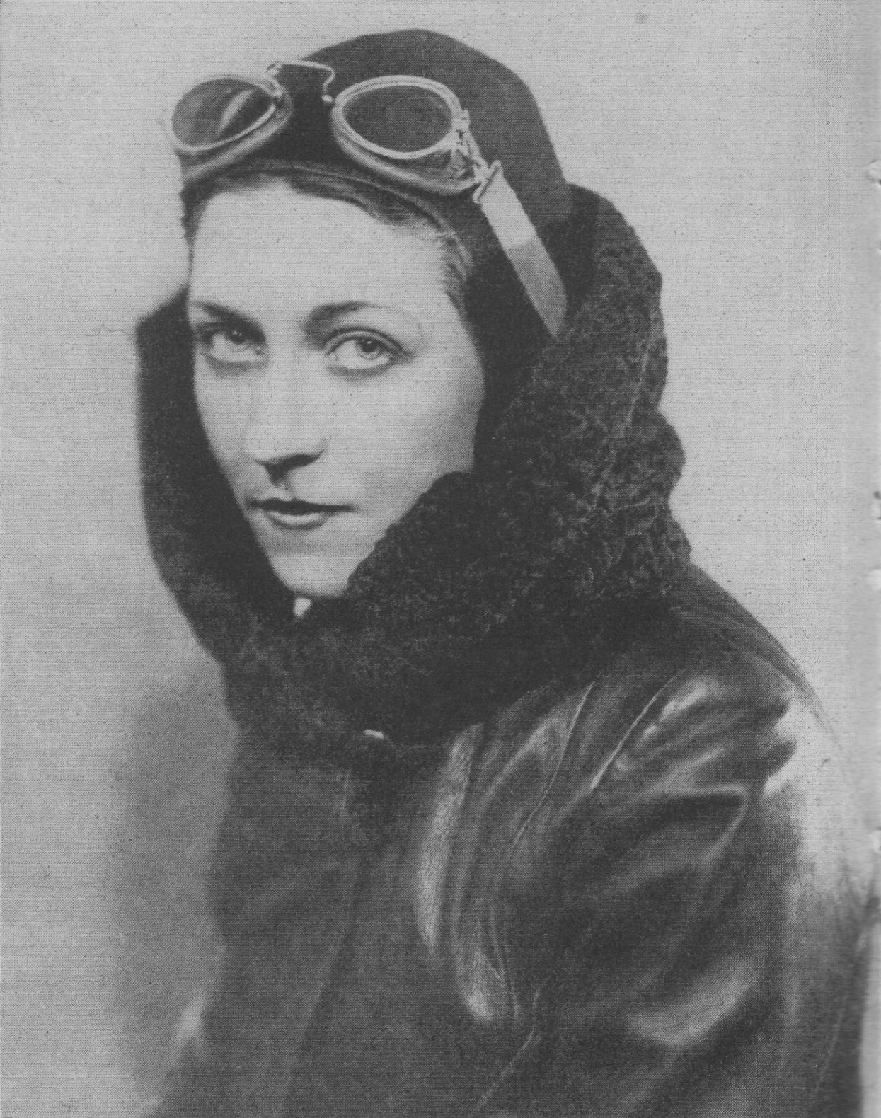 Miss Amy Johnson (Later Mrs. J.A.Mollison), who made a solo flight to Australia in May 1930 Approximate date of photograph: 1930